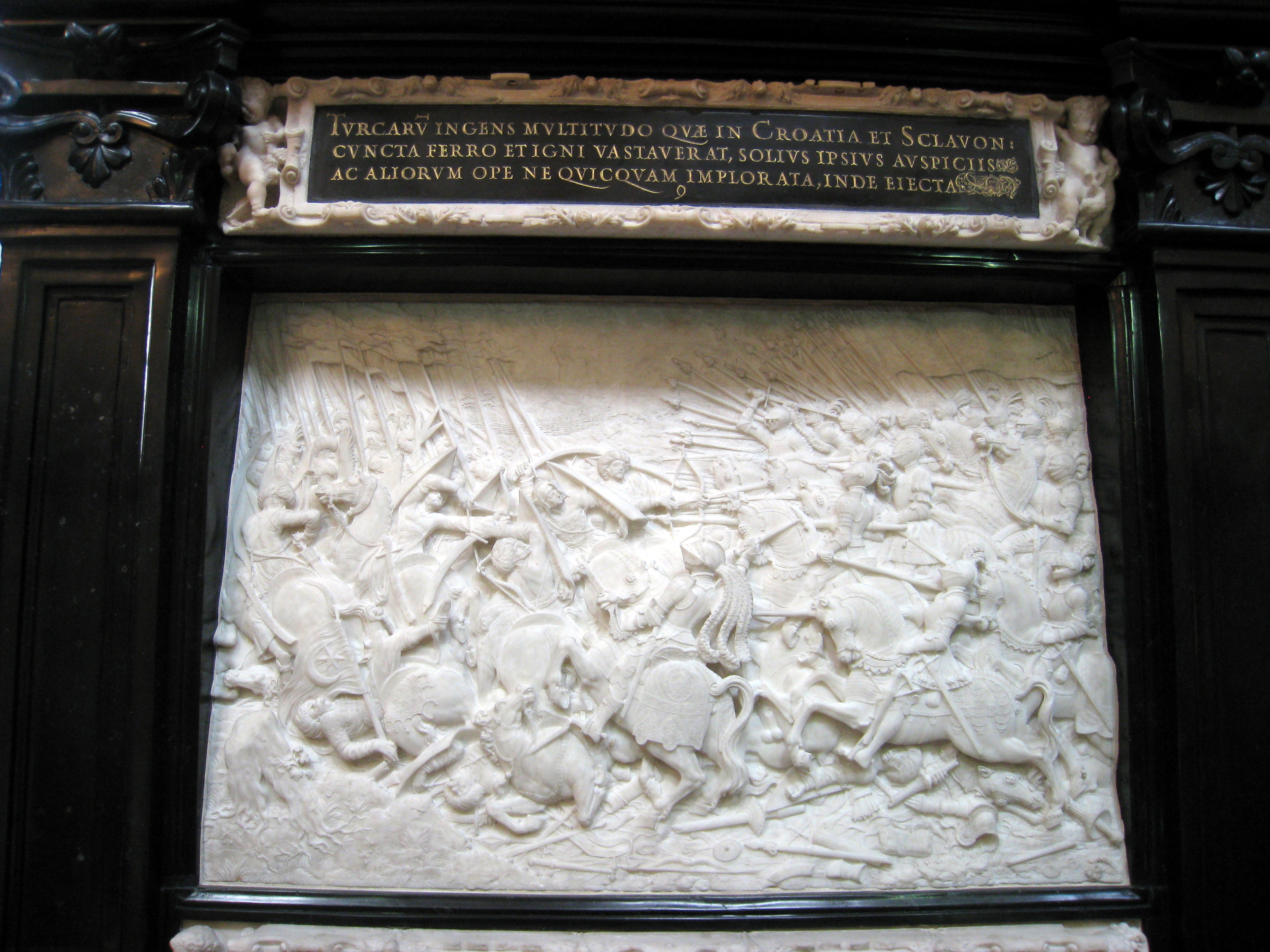 Hofkirche, Innsbruck, Austria - cenotaph of Maximilian I - relief by Alexander Colins based on wood carvings by Albrecht Durer.